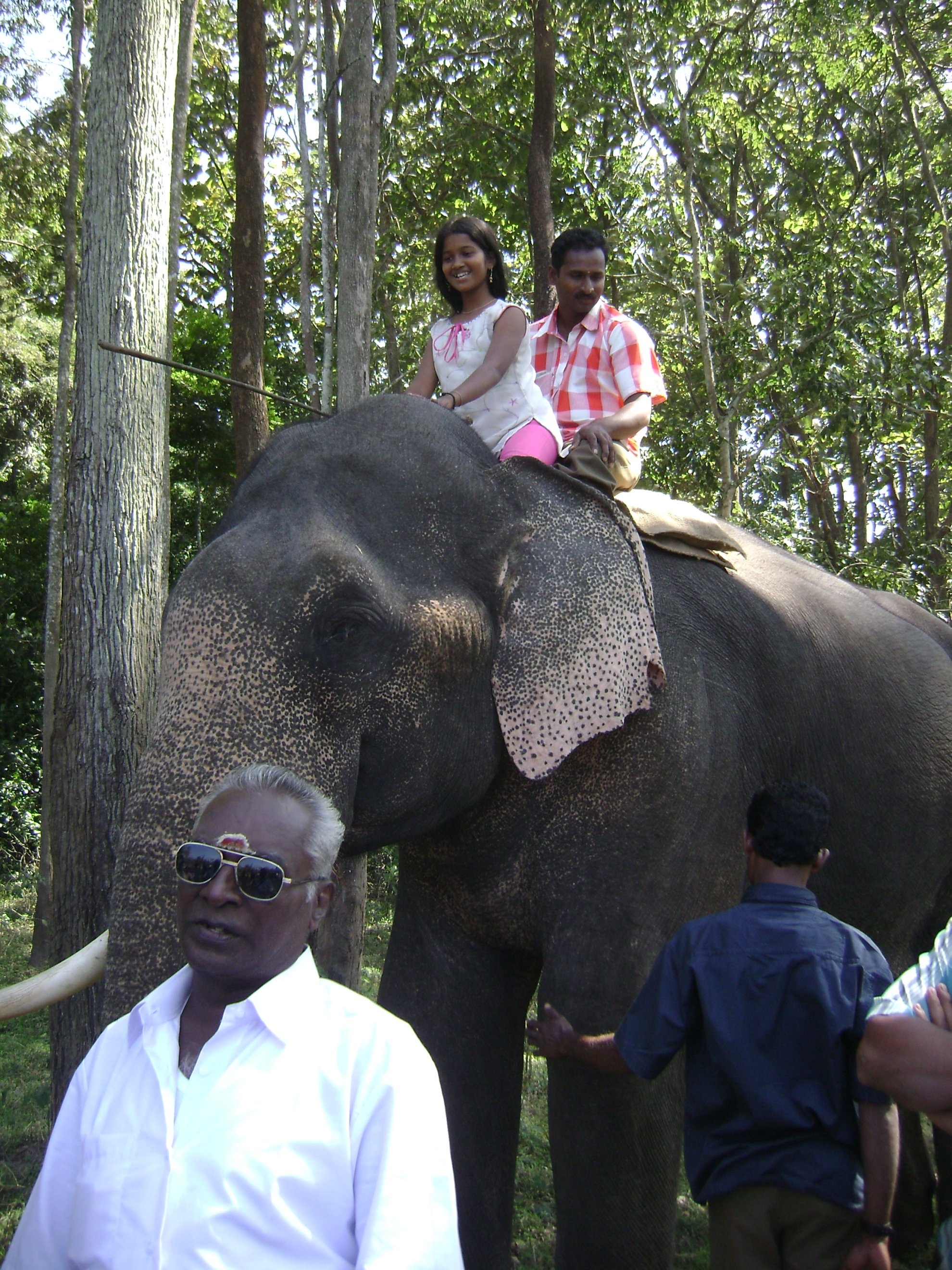 Tourists with Kumki elephant from Kozhikamudhi Elephant Camp after Elephant Pongal at Top Slip